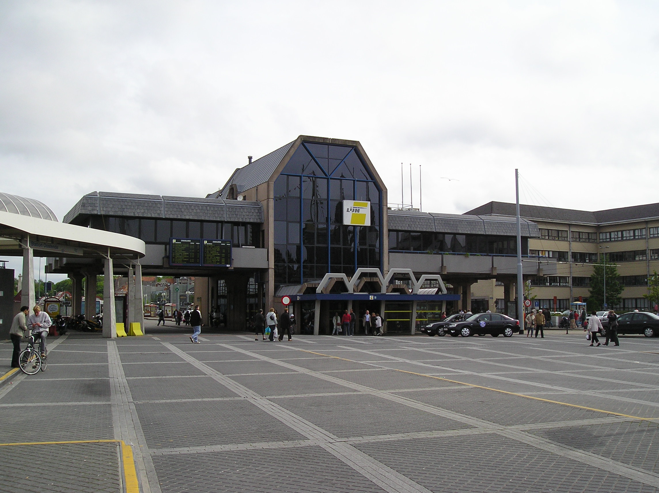 Ostend tram and bus station. At the left side of the building, underneath the blue board with the hours of departure is the bus station. The other side is the tram station.